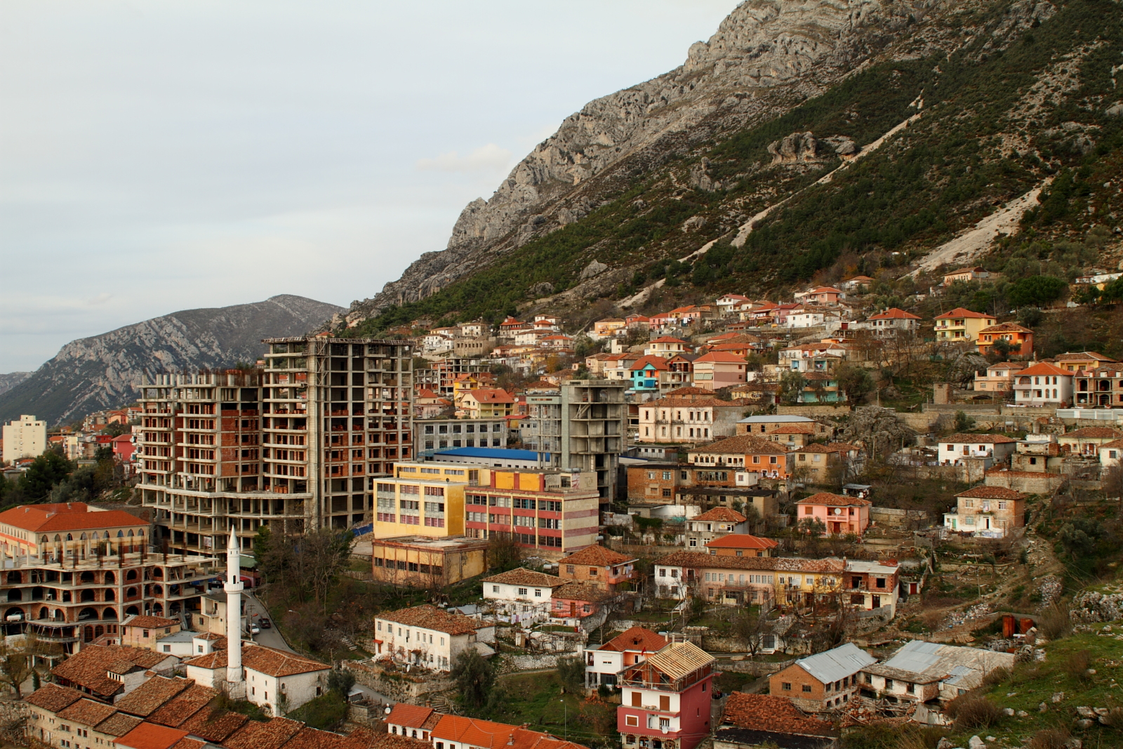 View of the city of Krujë (Kruja) in Albania